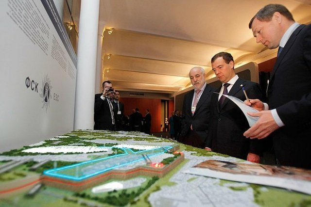 Dmitry Medvedev examines the plating of the Skolkovo Technopark 2012